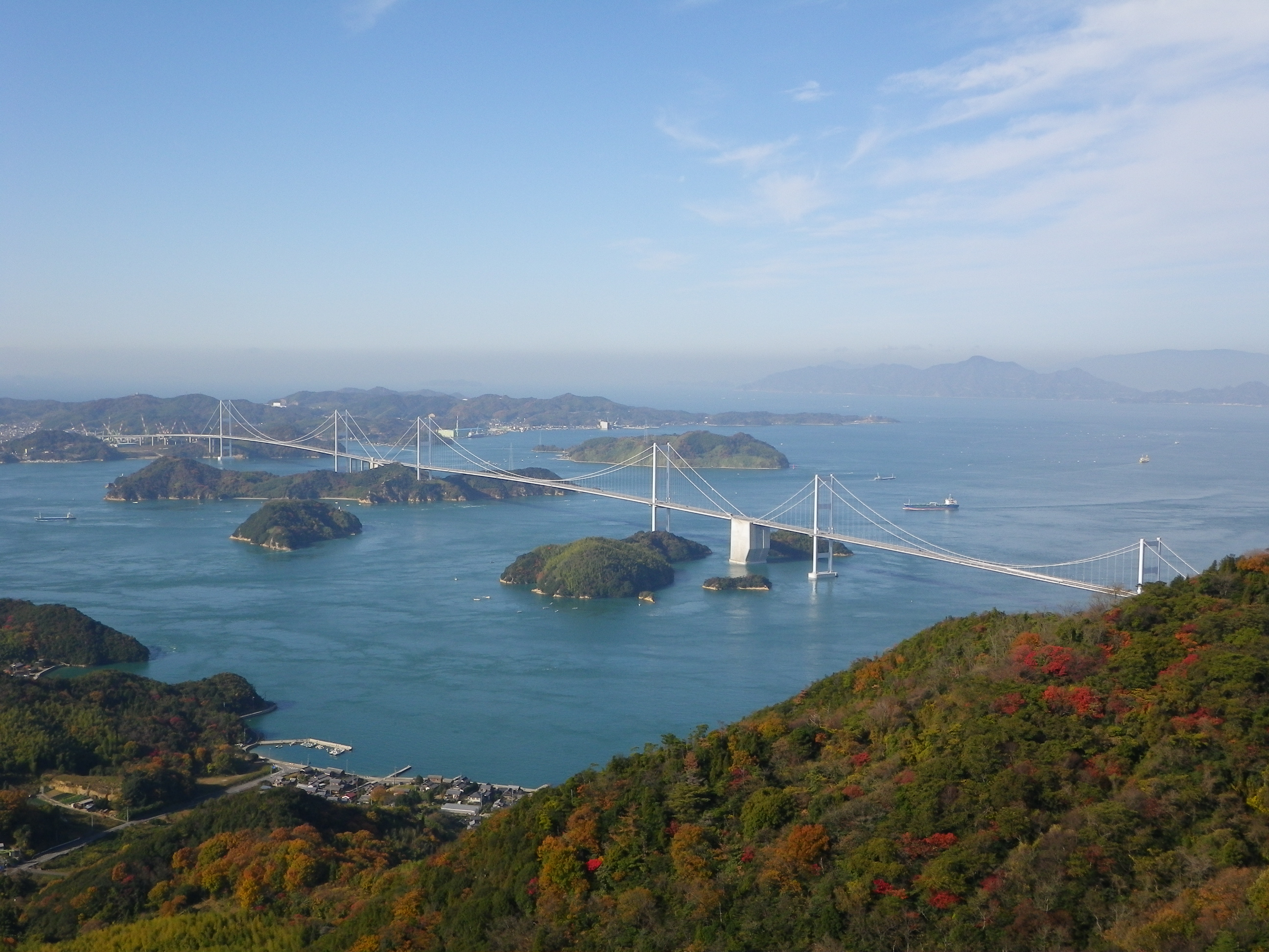 Kurushimakaikyo_Ohashi_bridge_from_Mt.Kirosan